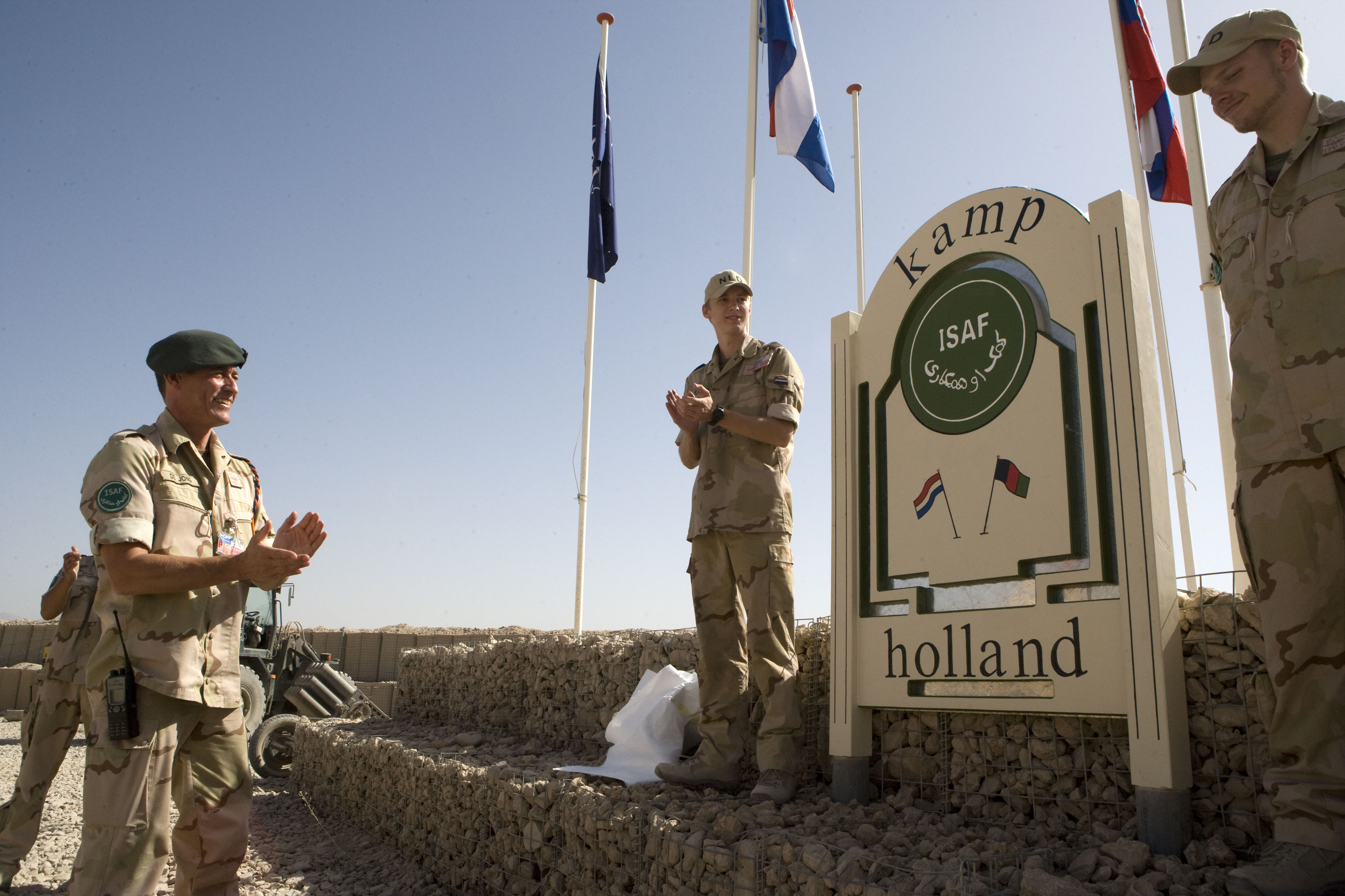 Afghanistan Kamp Holland tarin Kowt, 17 juli 2009. Onthulling nieuwe bord Kamp Holland